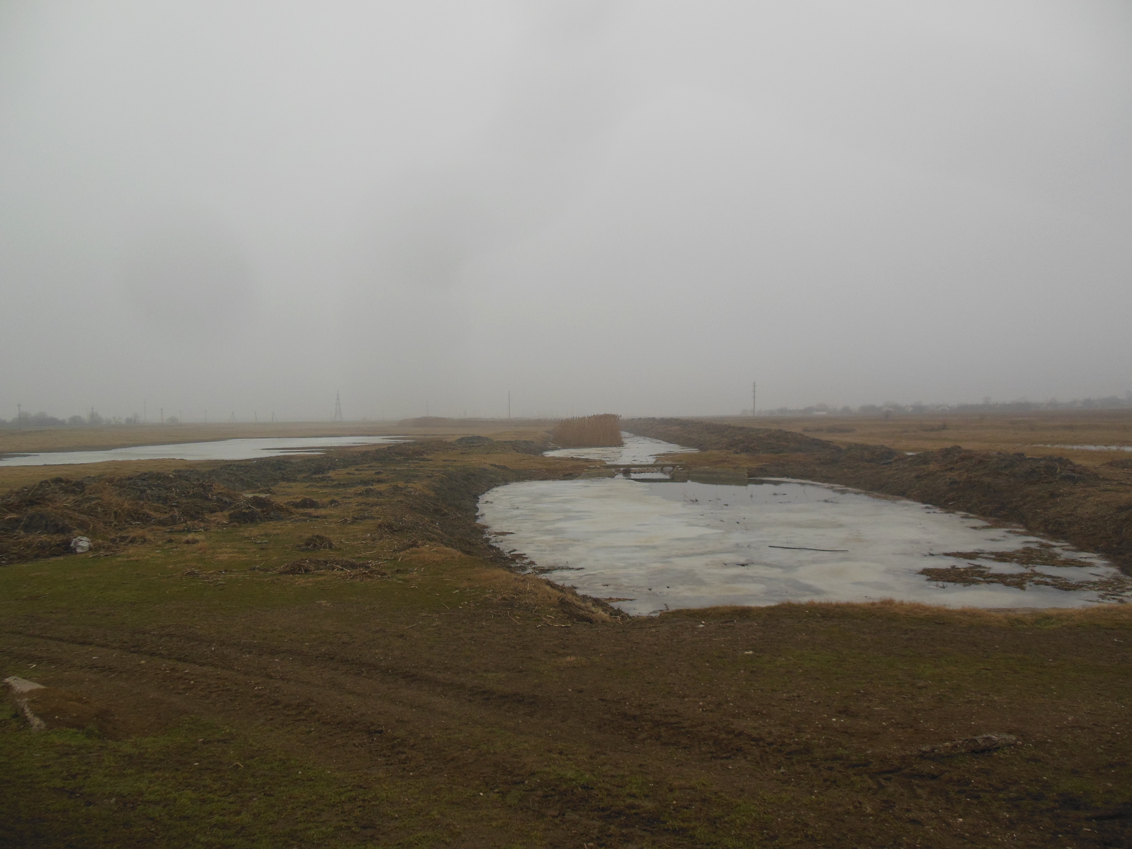 Ponds for on the riverStalnaya near the village Stalnoe, Crimea.